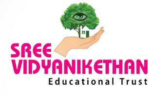 Latest Sree Vidyanikethan Logo